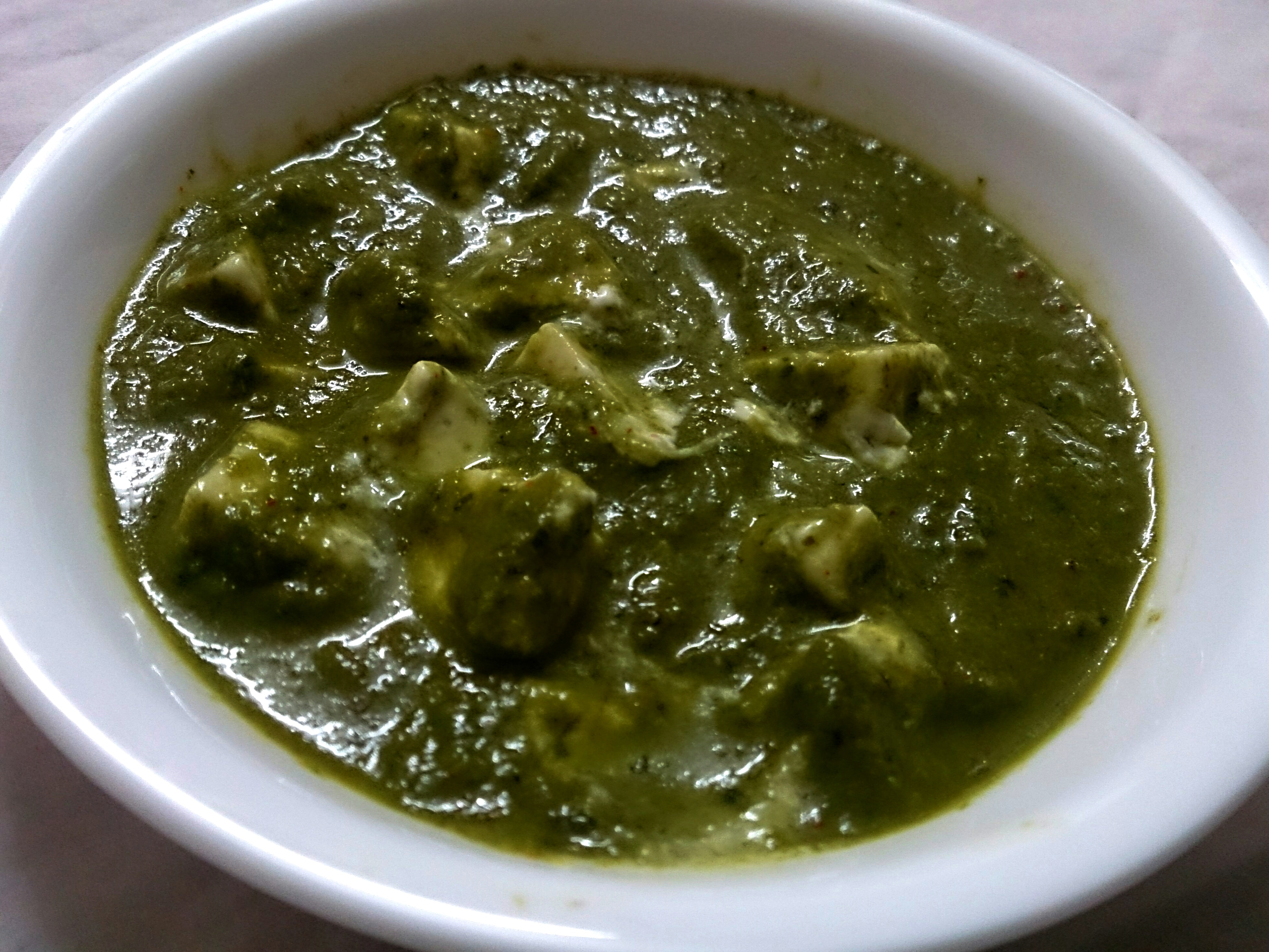 A North Indian dish consisting of paneer (cottage cheese) in a thick spinach gravy, usually served with naan or roti (Indian bread).